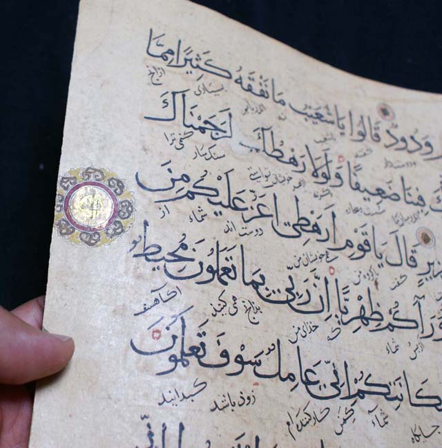 An Ilkhanid Koran with Persian translation between the lines.